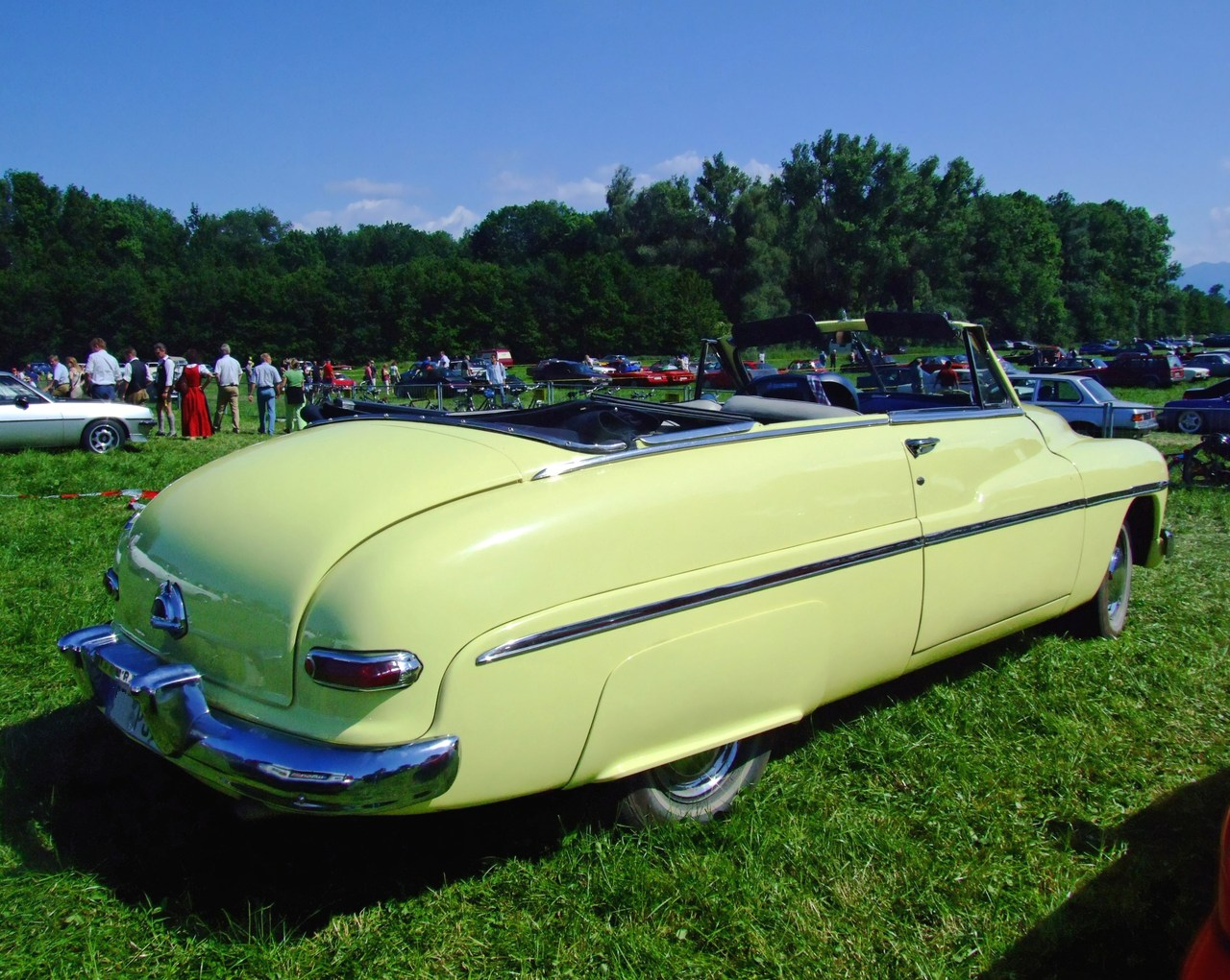 1950 Mercury at ADAC Bavaria Historic Maxlrain 2007